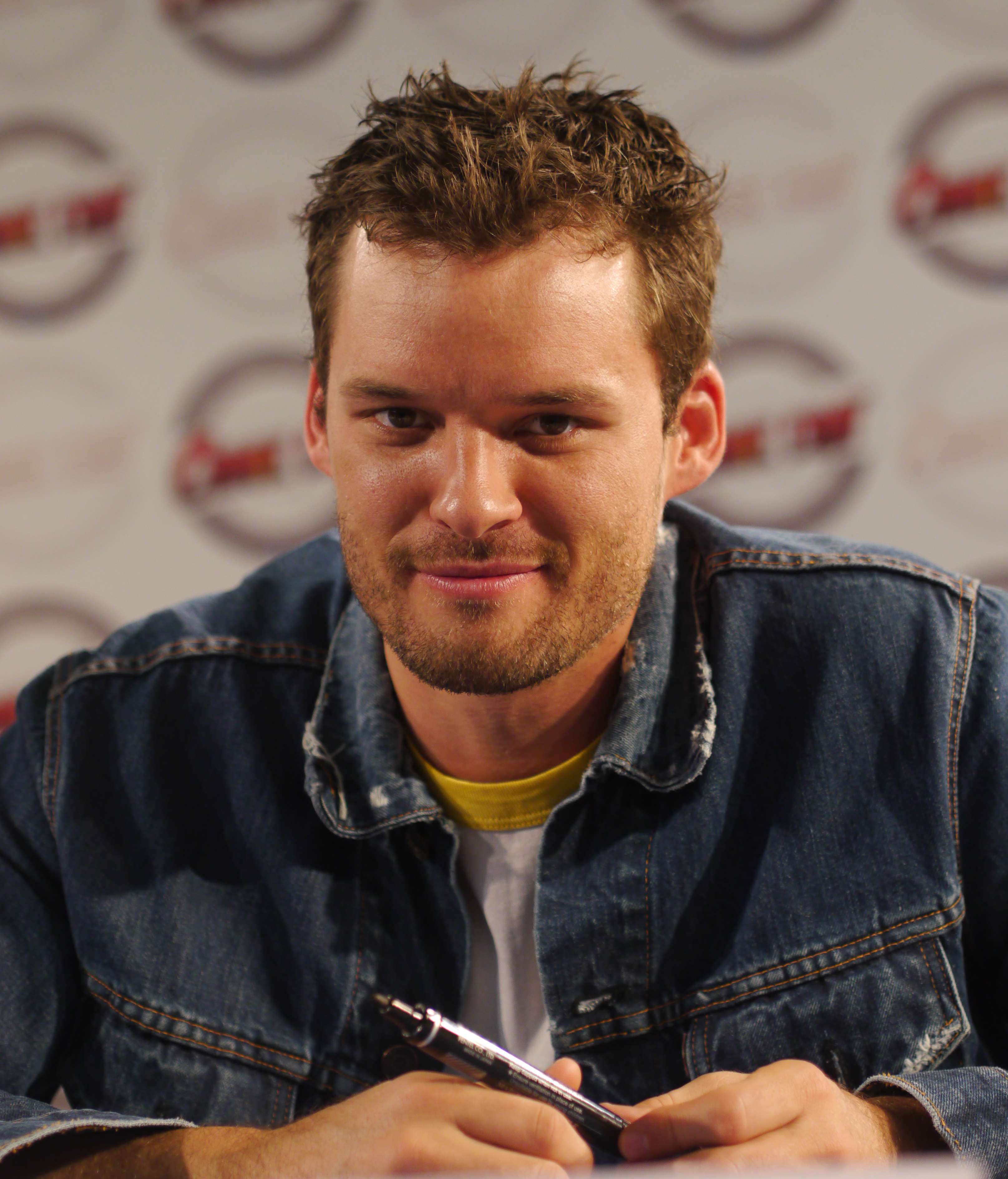 Austin Nichols at the 2012 San Diego Comic-Con International.